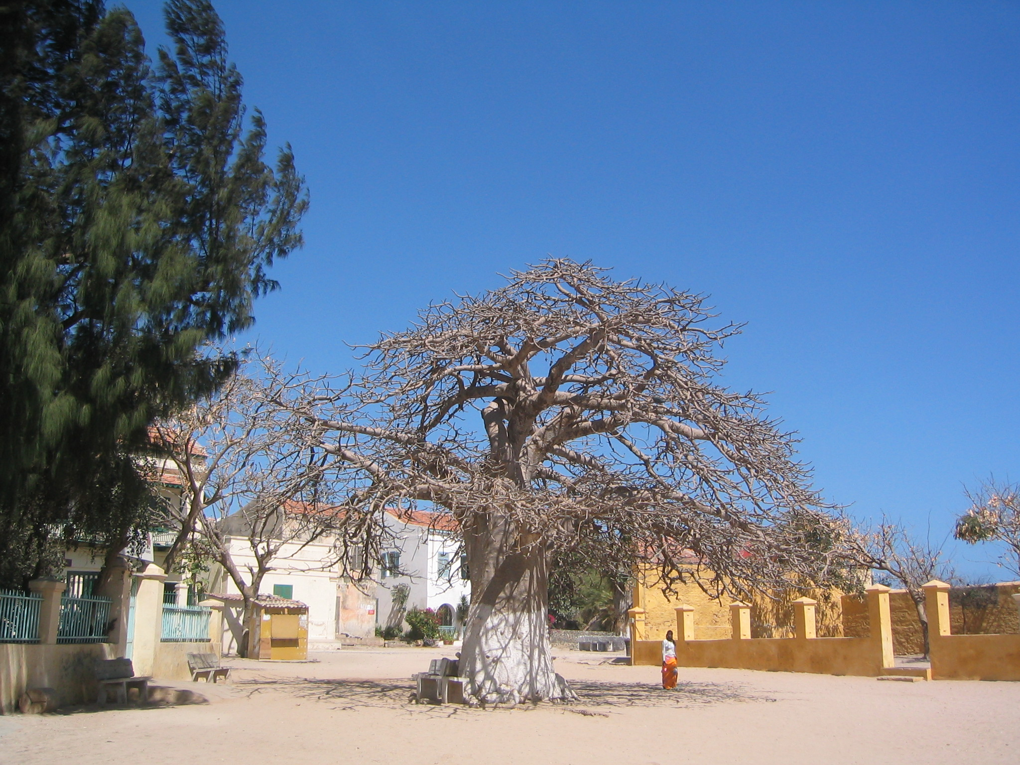 Baobab in Island of Goree, Senegal.